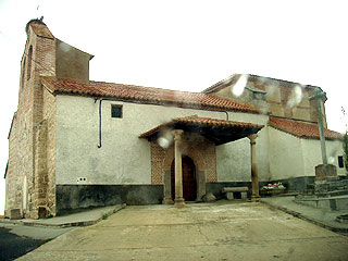 Church of Santo Domingo de las Posadas in a rainy day.